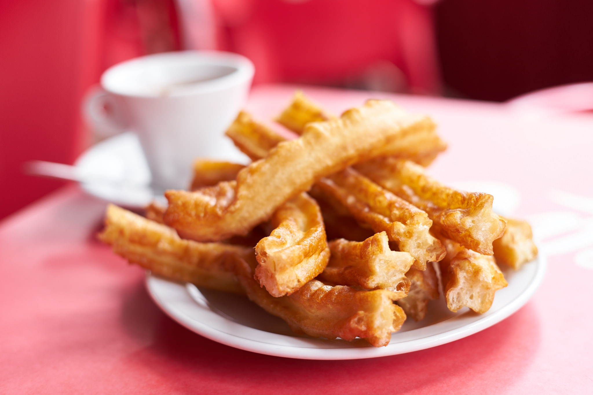 Churros